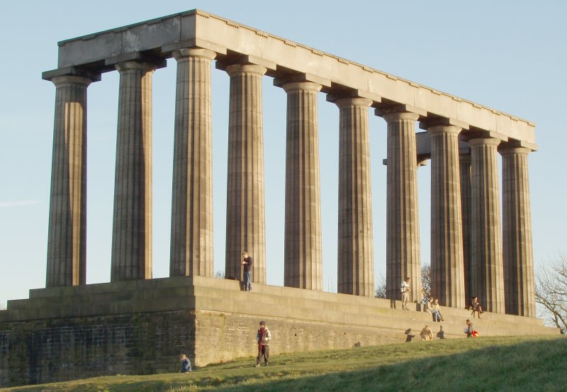 National Monument. Taken on Calton Hill.Edinburgh's Disgrace